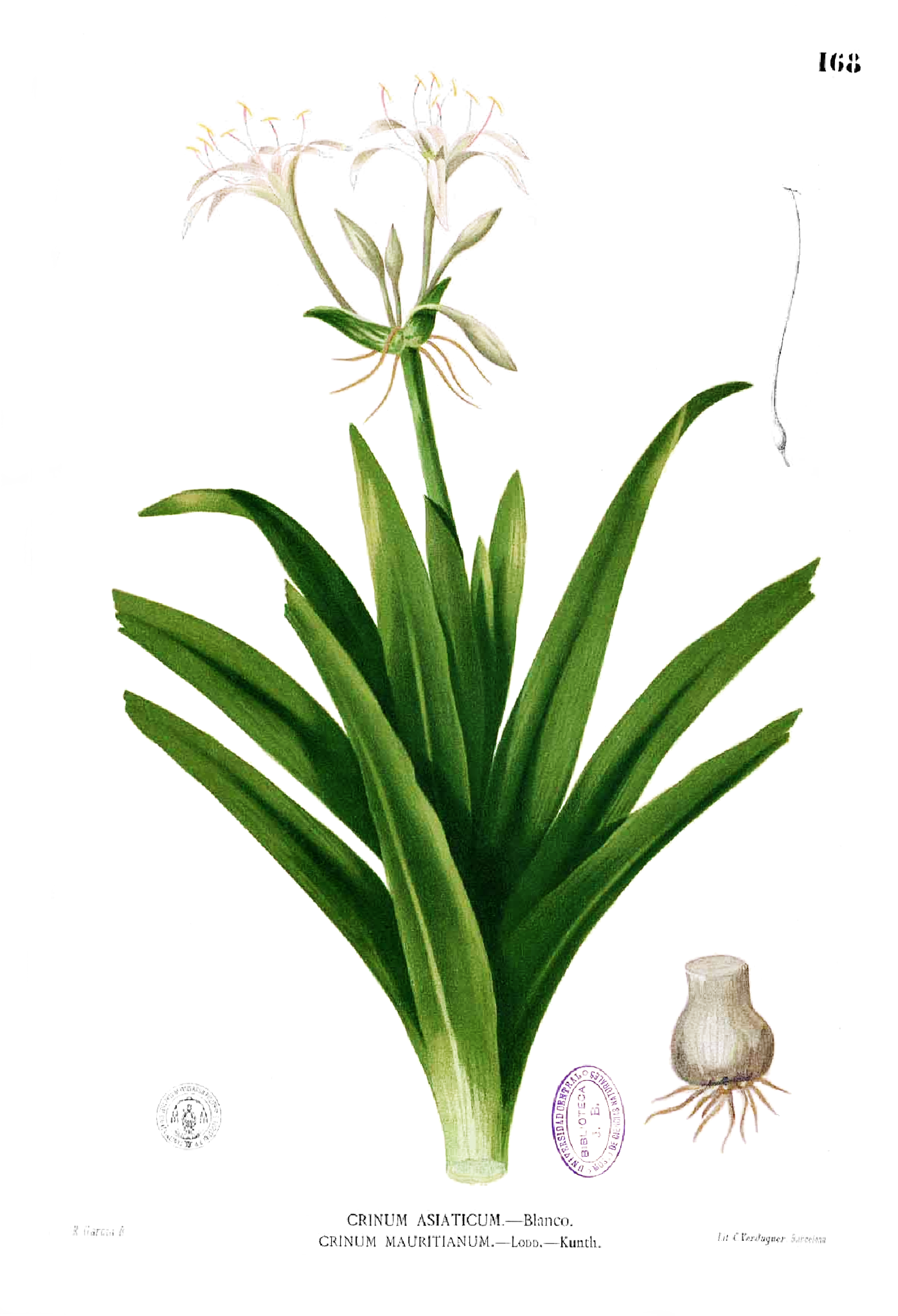 Plate from book